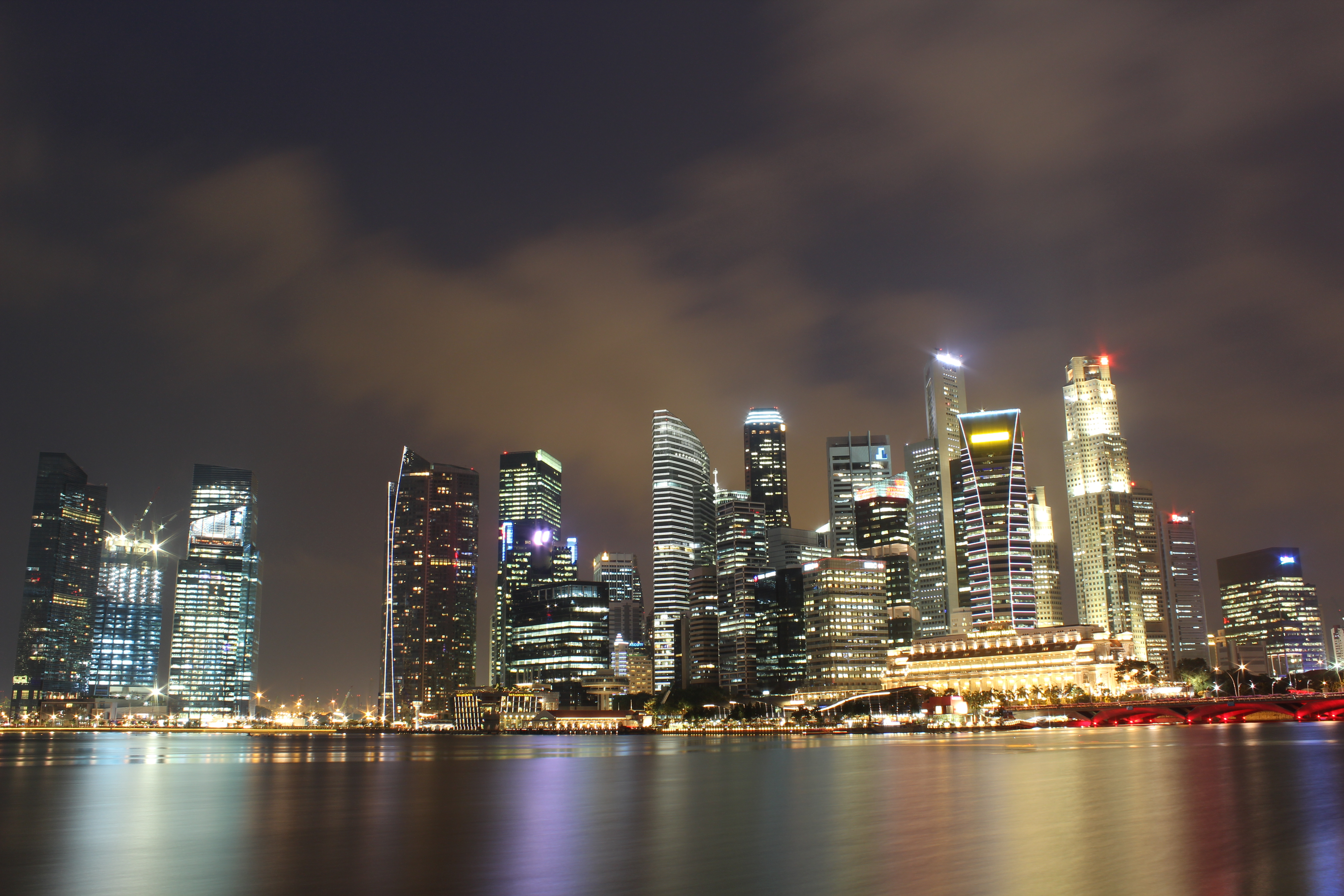 Singapore's Downtown Core at night.